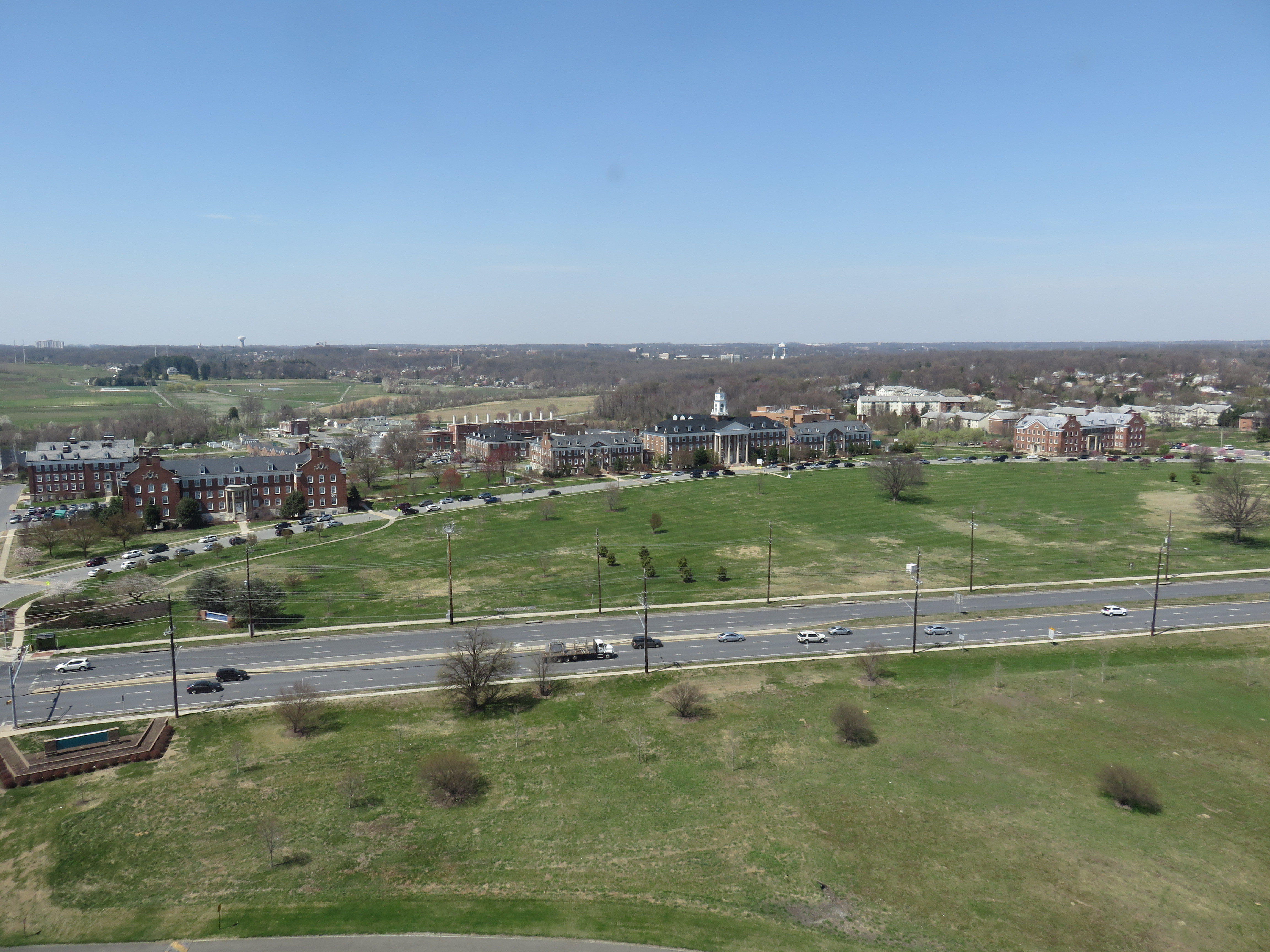 Henry A. Wallace Beltsville Agricultural Research Center in Beltsville, Maryland, viewed from the top floor of the United States National Agricultural Library in 2018